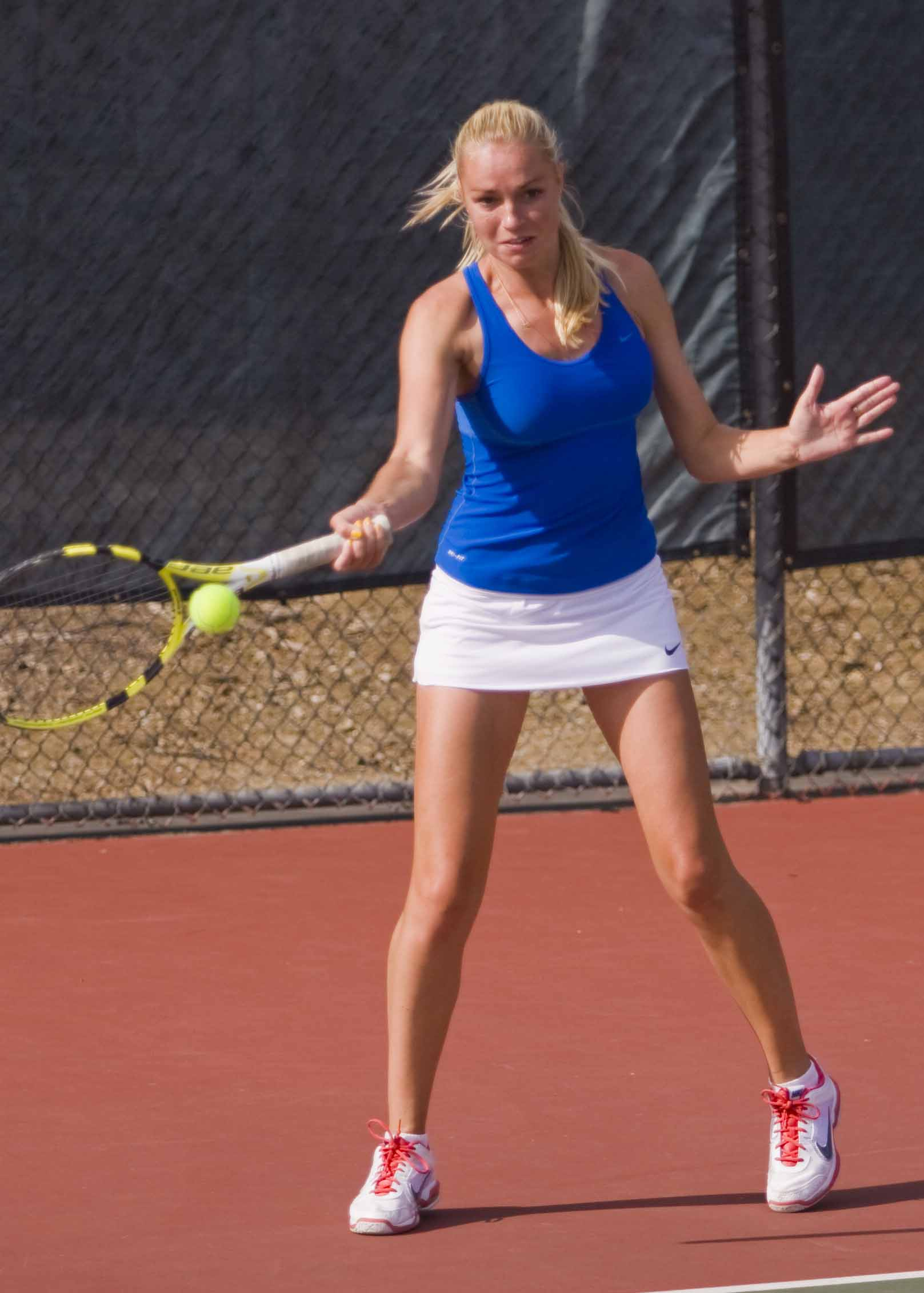 3 seed Trīna Šlapeka during her second round match in the Women's Open Singles.